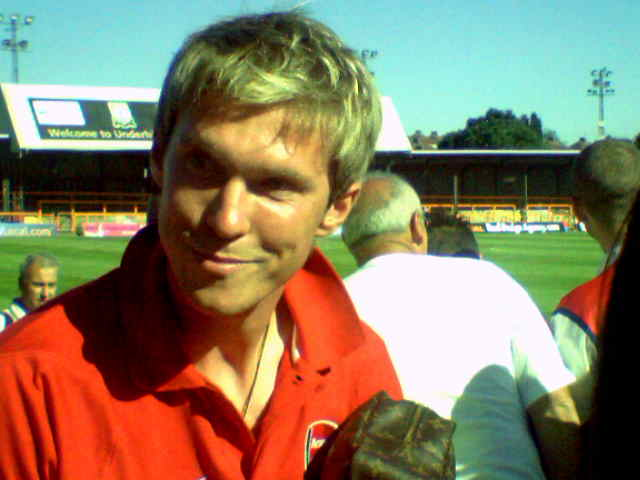 Aliaksandr Hleb (Belarusian language: Алякса́ндар Па́ўлавіч Глеб) Belarusian footballer who plays in midfield for Arsenal F.C.